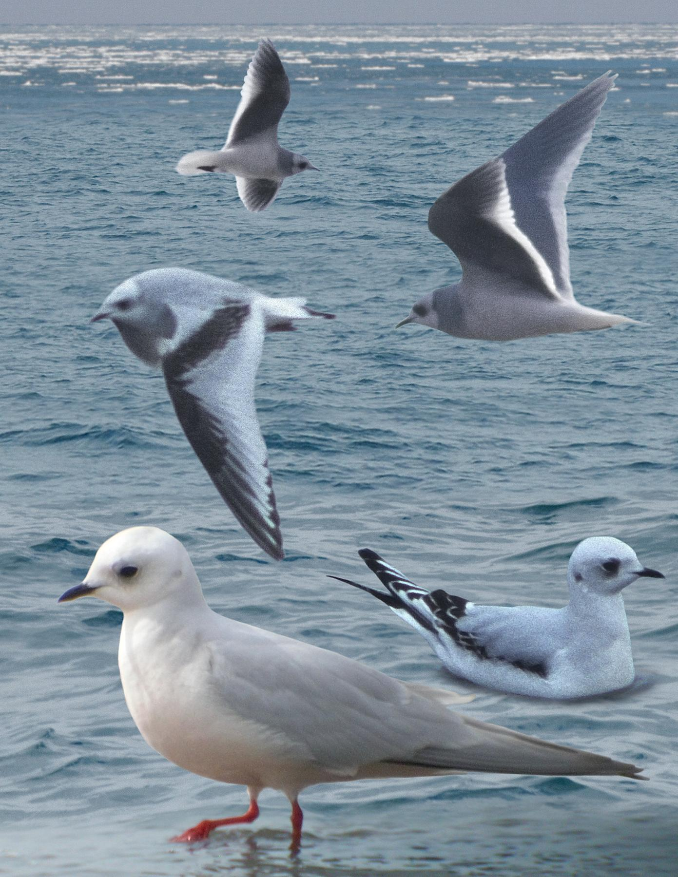 Ross's Gull From The Crossley ID Guide Eastern Birds